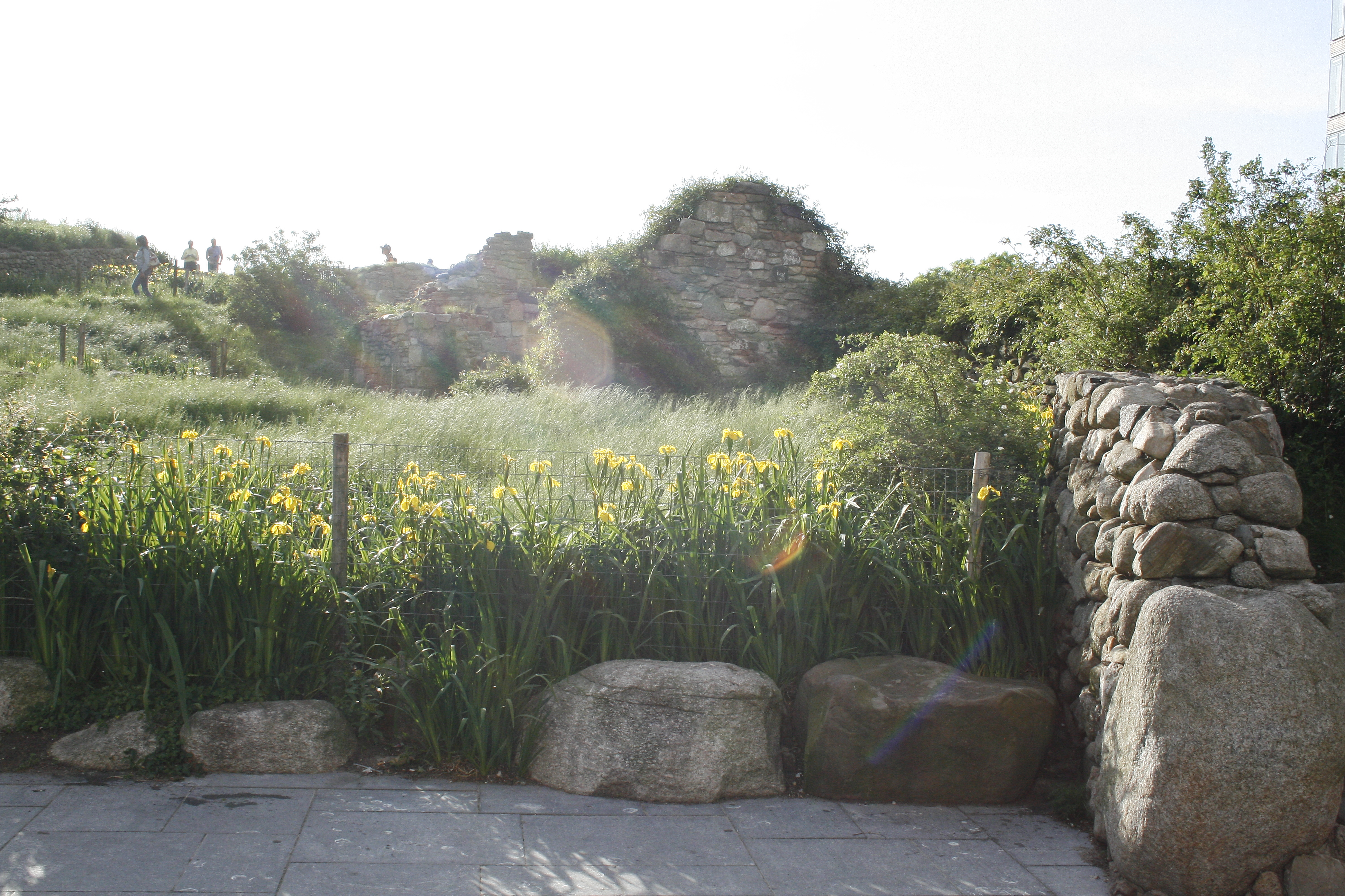 Photograph by Michael Luft-Weissberg